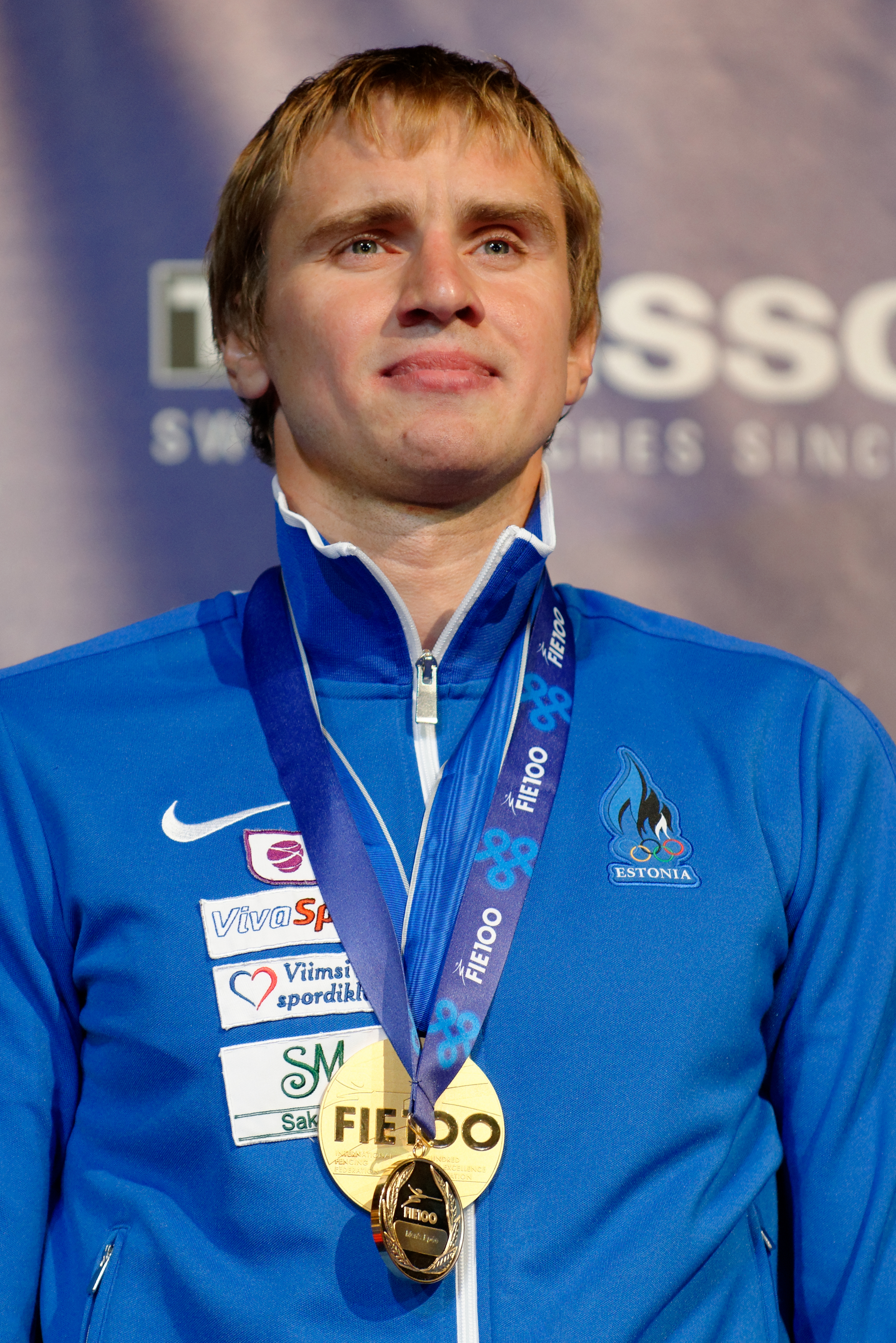 Estonia's Nikolai Novosjolov stands on the podium of the men's épée event in the 2013 World Fencing Championships 2013 at Syma Hall in Budapest, 8 August 2013.